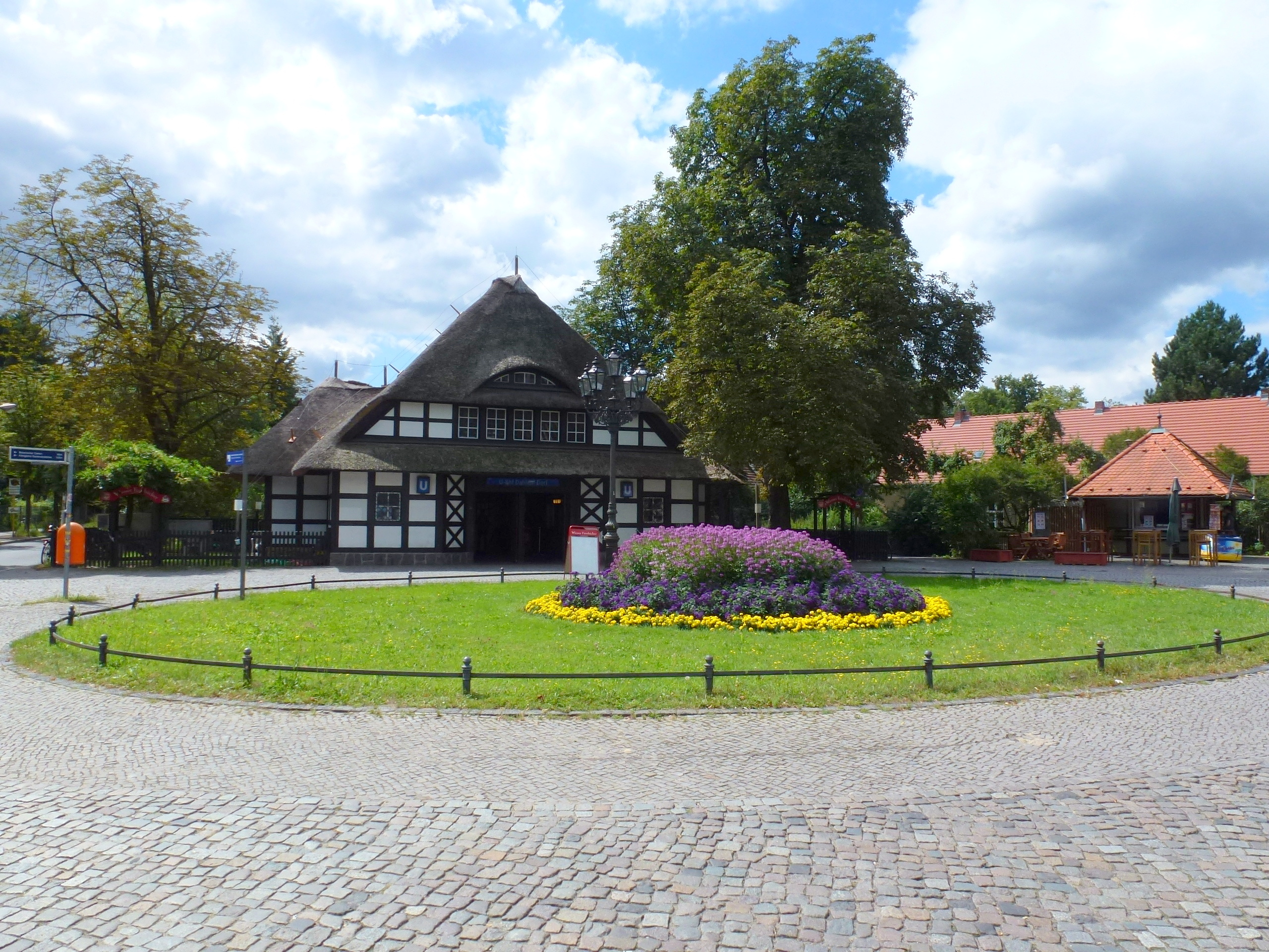 Berlin-Dahlem Königin-Luise-Straße U-Bahnhof Dahlem-Dorf